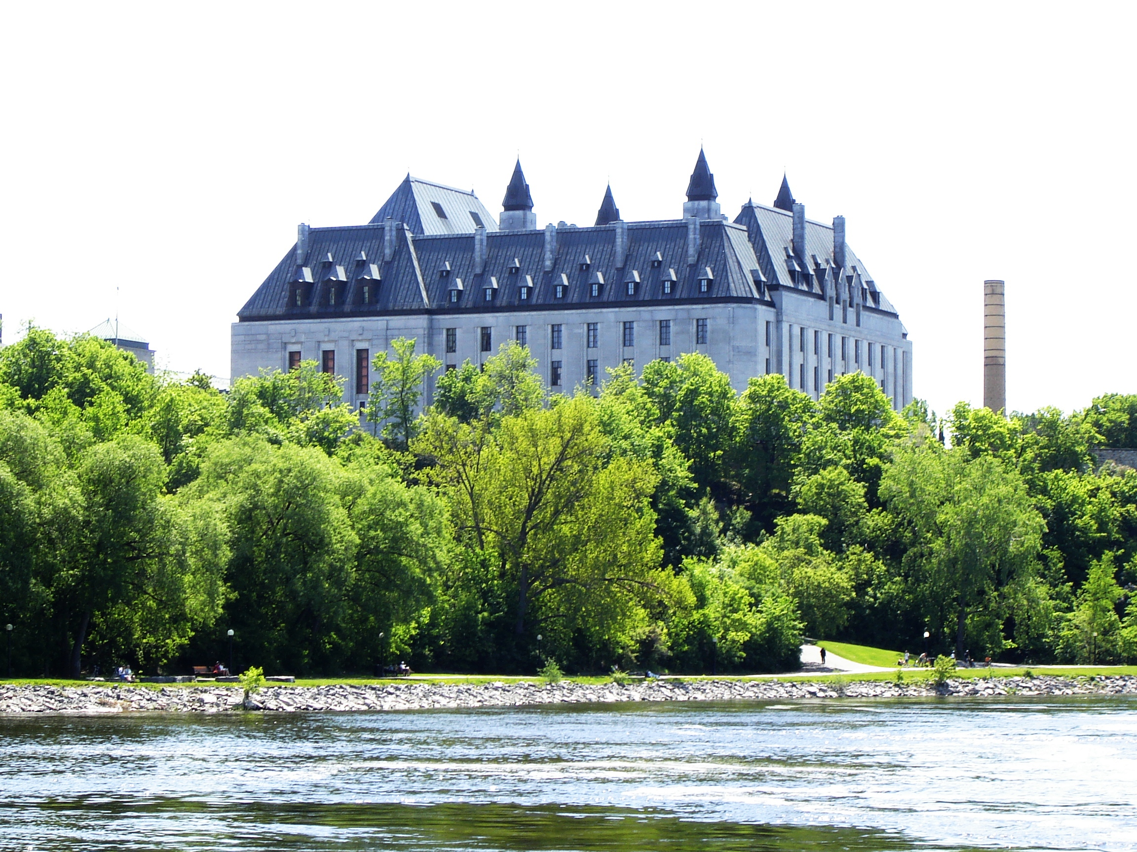 Paul Shannon, 27 May 2006